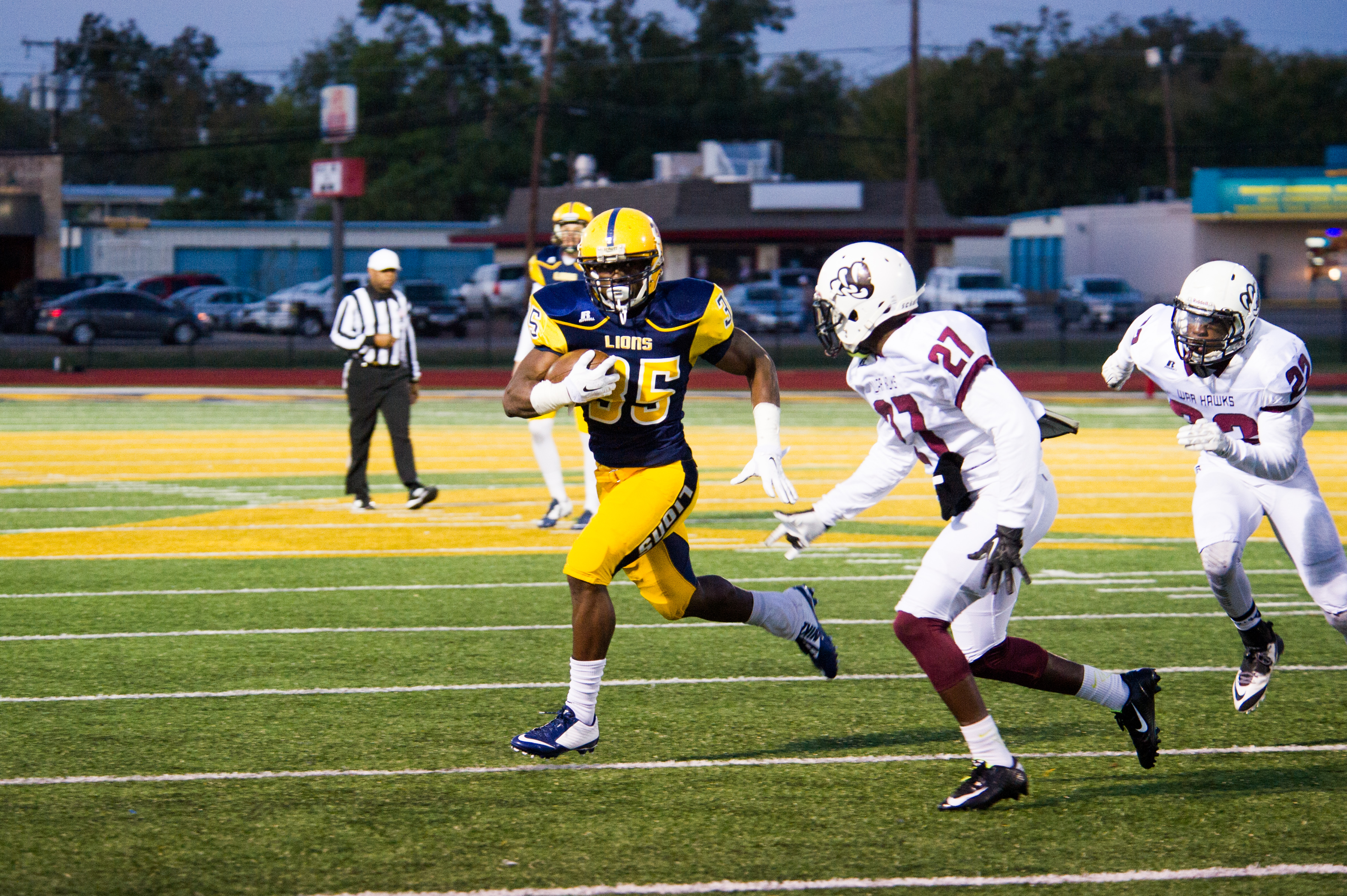 14497-Homecoming Football vs McMurray-4555.jpg Scenes from the McMurry War Hawks vs. Texas A&M–Commerce Lions football game and homecoming tailgate on November 1, 2014.